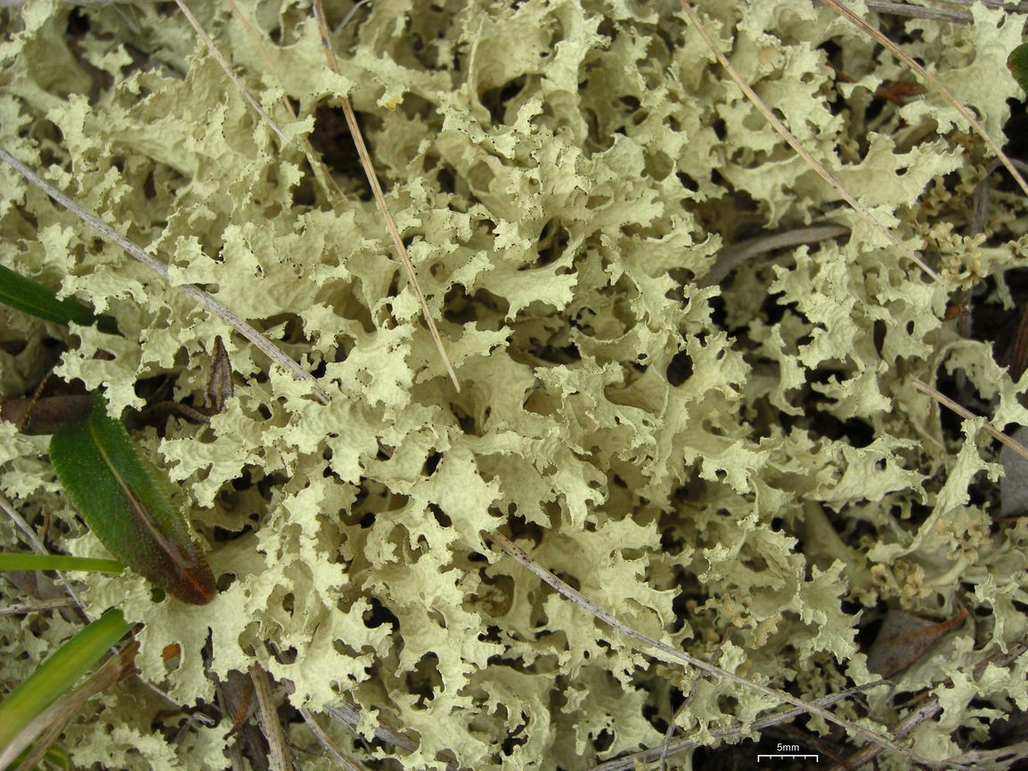 Flavocetraria nivalis (L.) Kaernefelt & Thell 20090624.122 Mount Stearns, Willmore Wilderness, Alberta